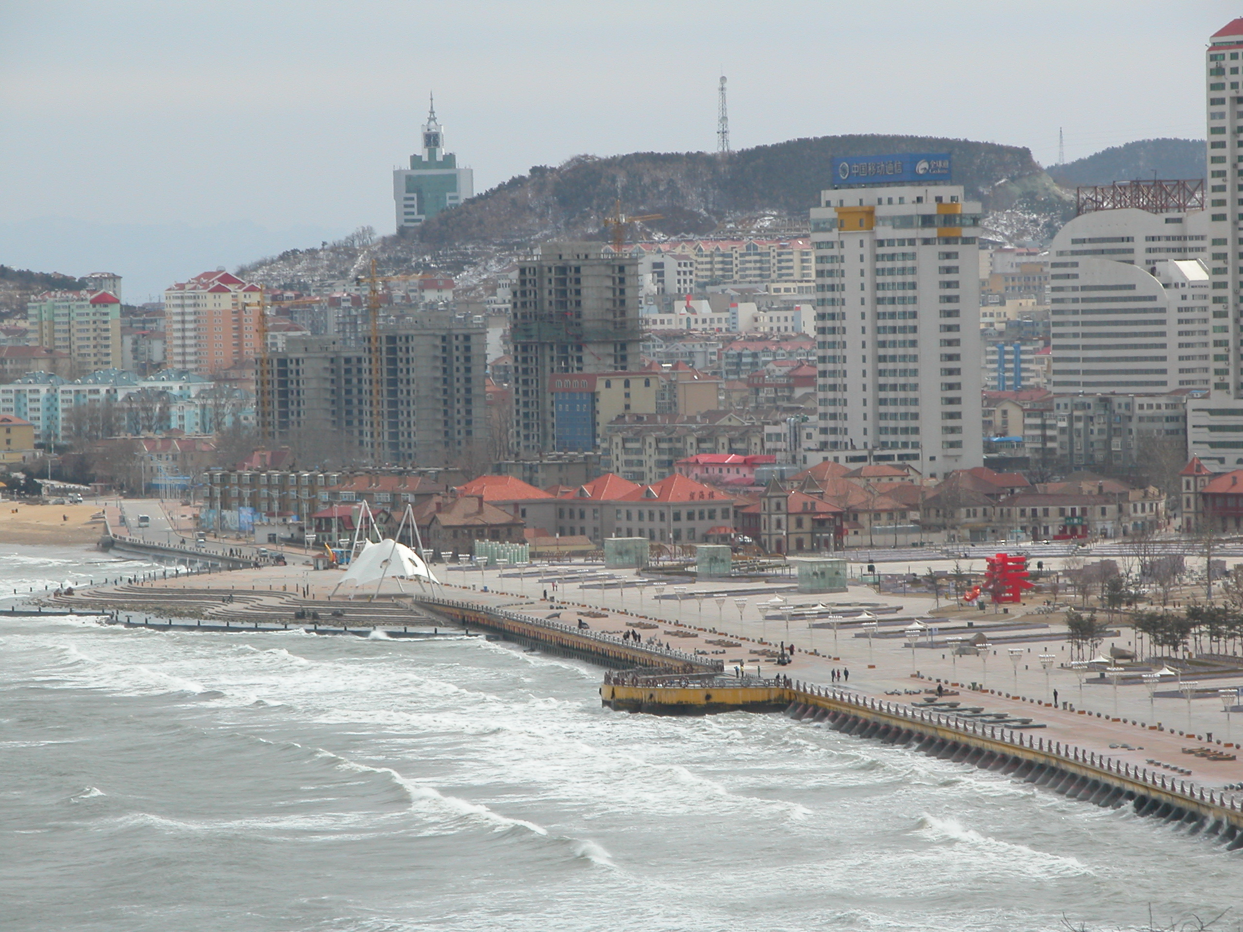 A view of the Yantai shore front. Shandong province, People's Republic of China